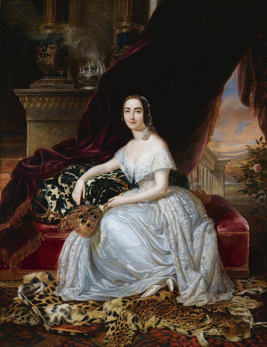 Ekaterini Botzaris Caradja painted by Pietro Luchini 1845